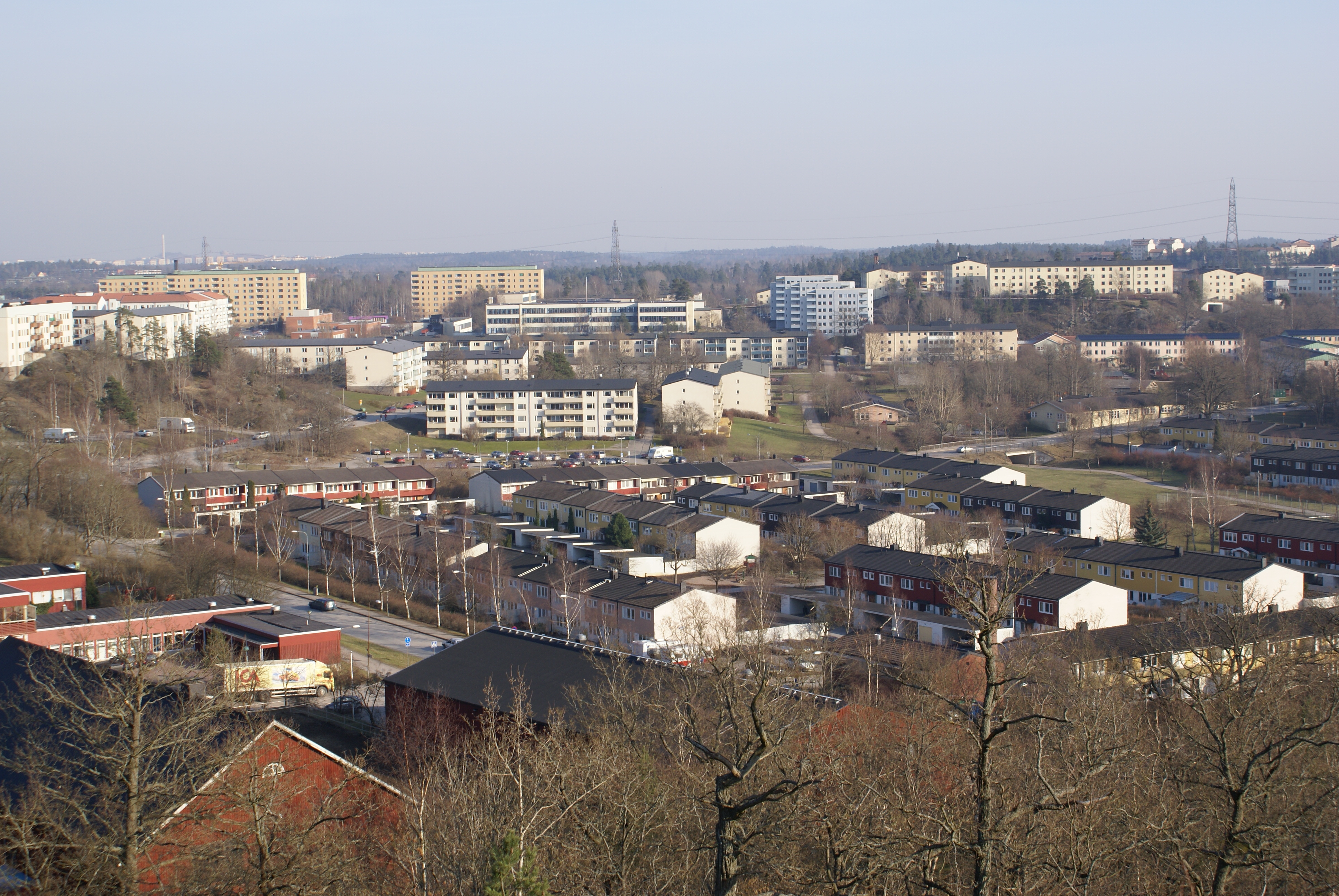 Suburb Sätra of Stockholm, Sweden. I took this photo myself, a few days ago.